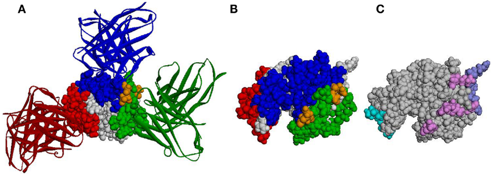 Predicted epitopes vs. the actual epitopes of HEL. (A) The 3-D structure of HEL (CPK representation) together with three Abs (ribbon representation). PDB IDs 1JHL, 3D9A, and 1MLC were superimposed according to HEL structure. Epitope residues are colored blue, green, and red according to the corresponding Ab. Residues that are common to two epitopes are colored orange. (B) The structure of HEL colored according to the same three epitopes as in (A), presented in a different orientation. (C) The structure of HEL colored according to the epitopes predicted by Discotope (light blue), ellipro (purple), and seppa (pink). Note, not all predicted residues of Discotope and ellipro are observable in the presented orientation.